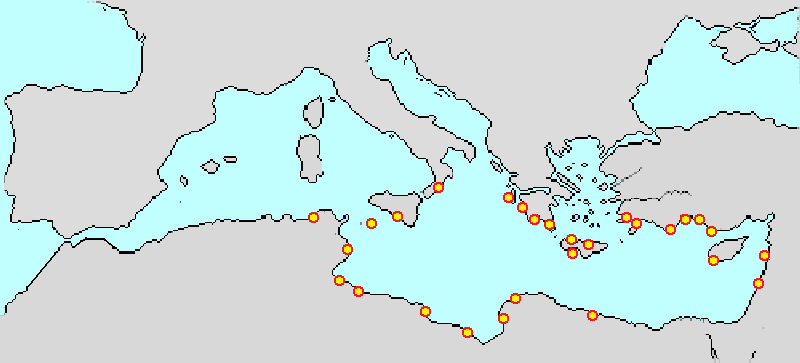 Nesting sites in the Mediterranean Sea Edited by B kimmel